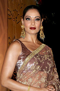 Bipasha Basu at The Great Indian Wedding Book launch in August, 2017.